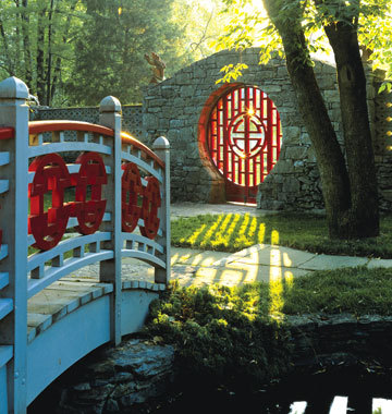 Chinese Garden — Museum of the Shenandoah Valley, Virginia, U.S.